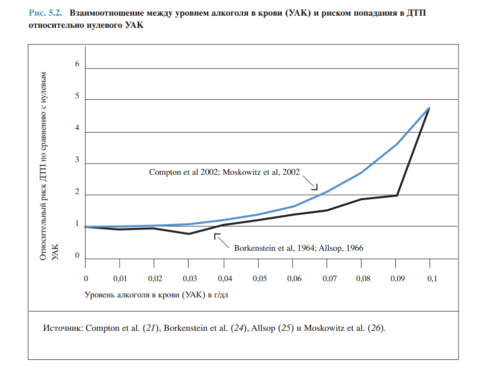 Relationship between blood alcohol concentration (BAC) and relative risk of crash. Part of UN WHO report Preventing road traffic injury: a public health perspective for Europe, page 47. Based on data from: 21. Compton RP et al. Crash risk of alcohol impaired driving. In: Mayhew DR, Dussault C, eds. Proceedings of the 16th International Conference on Alcohol, Drugs and Traffic Safety, Montreal, August 2002. Quebec, SociОtО de l’assurance automobile du QuОbec, 2002:39–44 ([1], accessed 1 February 2004). 24. Borkenstein RF et al. The role of the drinking driver in traffic accidents. Bloomington, IN, Department of Police Administration, Indiana University, 1964. 25. Allsop RE. Alcohol and road accidents: a discussion of the Grand Rapids study. Harmondsworth, Road Research Laboratory, 1966 (RRL Report No. 6). 26. Moskowitz H et al. Methodological issues in epidemiological studies of alcohol crash risk. In: Mayhew DR, Dussault C, eds. Proceedings of the 16th International Conference on Alcohol, Drugs and Traffic Safety, Montreal, August 2002. Quebec, SociОtО de l’assurance automobile du QuОbec, 2002:45–50 ([2], accessed 1 February 2004).